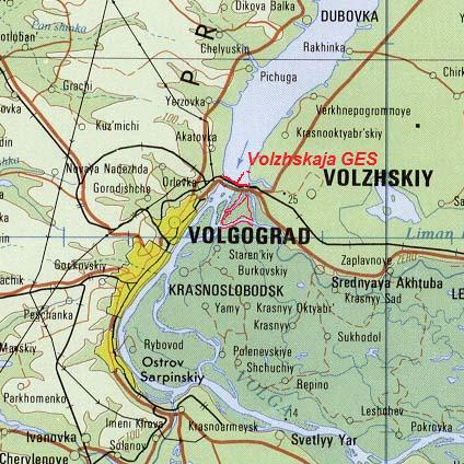 Original from Commons, modified from map downloaded by User:Nikai. Public Domain. Showing (red) the extent of the embankments of the Volga / Volgograd dam and Hydroelectric station.